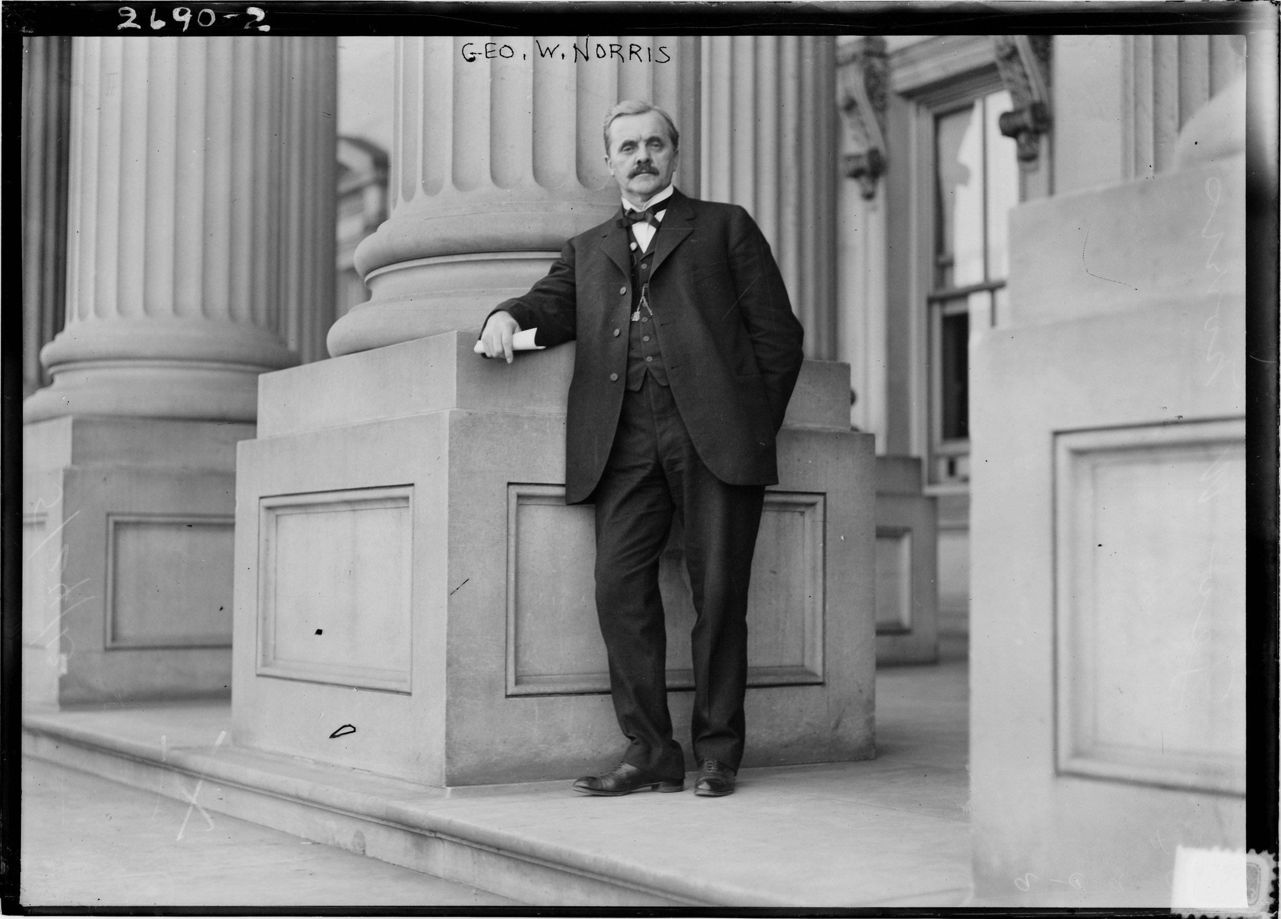 Photo shows George W. Norris (1861-1944), a Representative and Senator from Nebraska, who served in the U.S. Senate from 1913 to 1943. Image is part of the George Grantham Bain Collection (Library of Congress). Glass negative. Call number: LC-B2-2690-2.